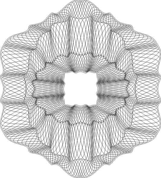 A sample of Guilloches, made by the Delina Security Design suite.